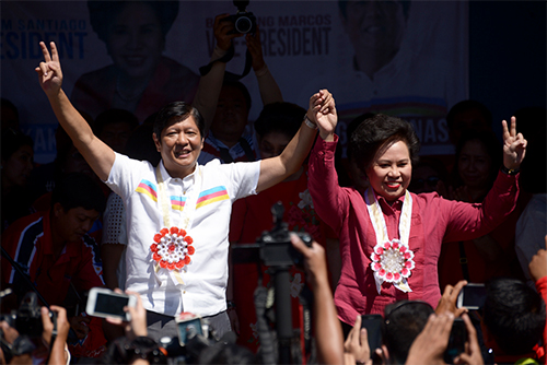 Senators Miriam Defensor-Santiago and Ferdinand "Bongbong" R. Marcos are seen together in public for the first time as a political tandem as they kick off their bid for the presidency and vice presidency, respectively for the May 2016 elections in Batac City, Ilocos Norte.